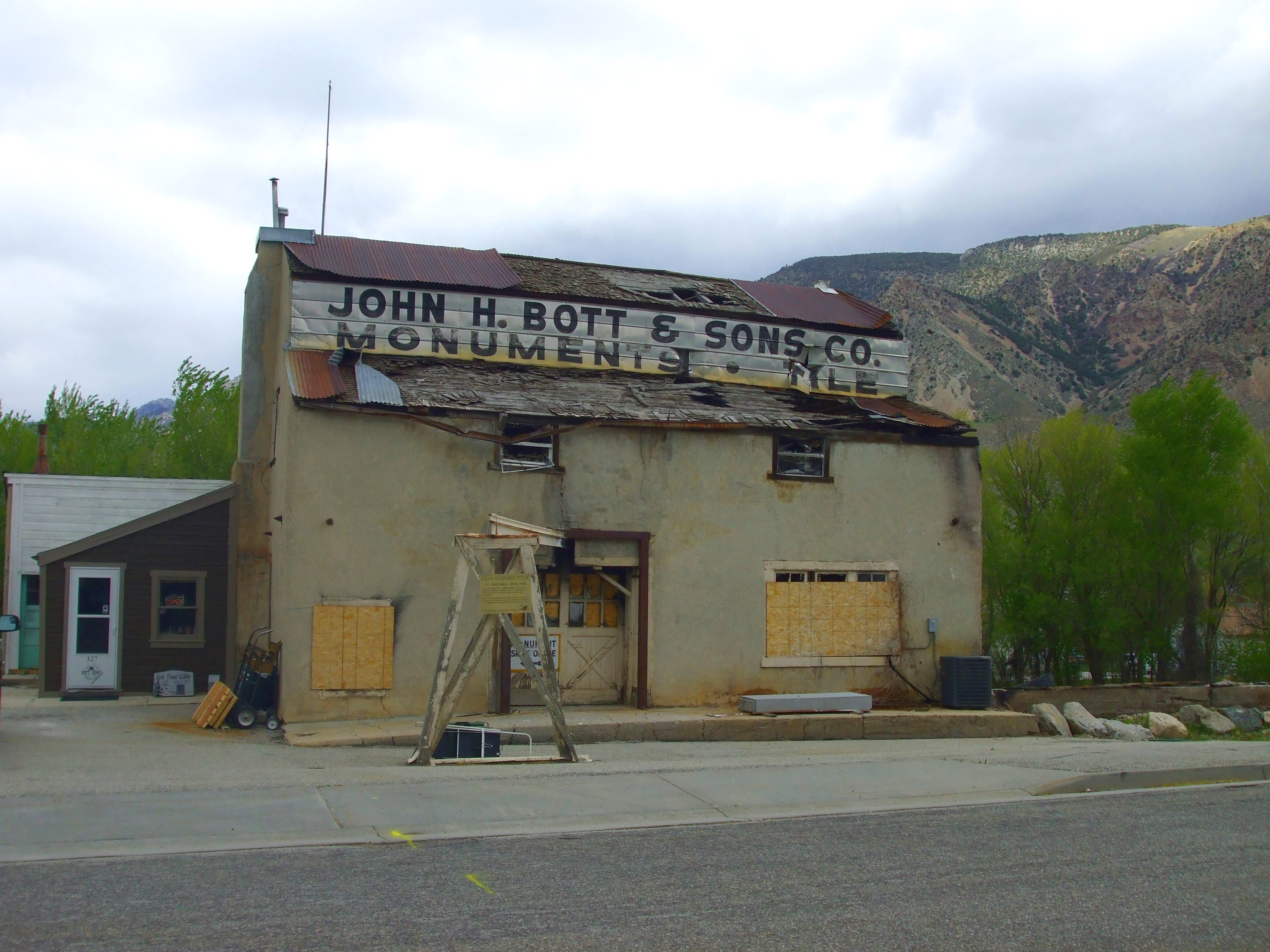 The Box Elder Flouring Mill, a historic building in Brigham City, Utah, United States.